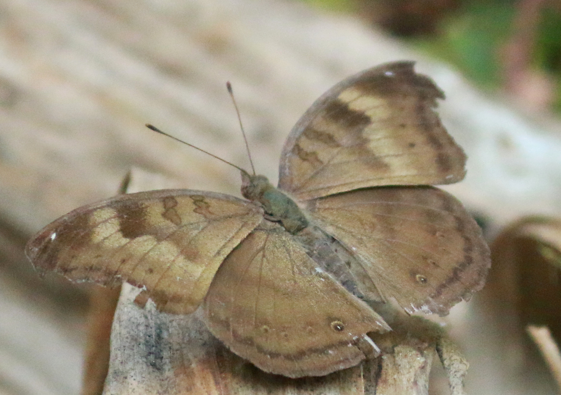 Chocolate pansy butterfly